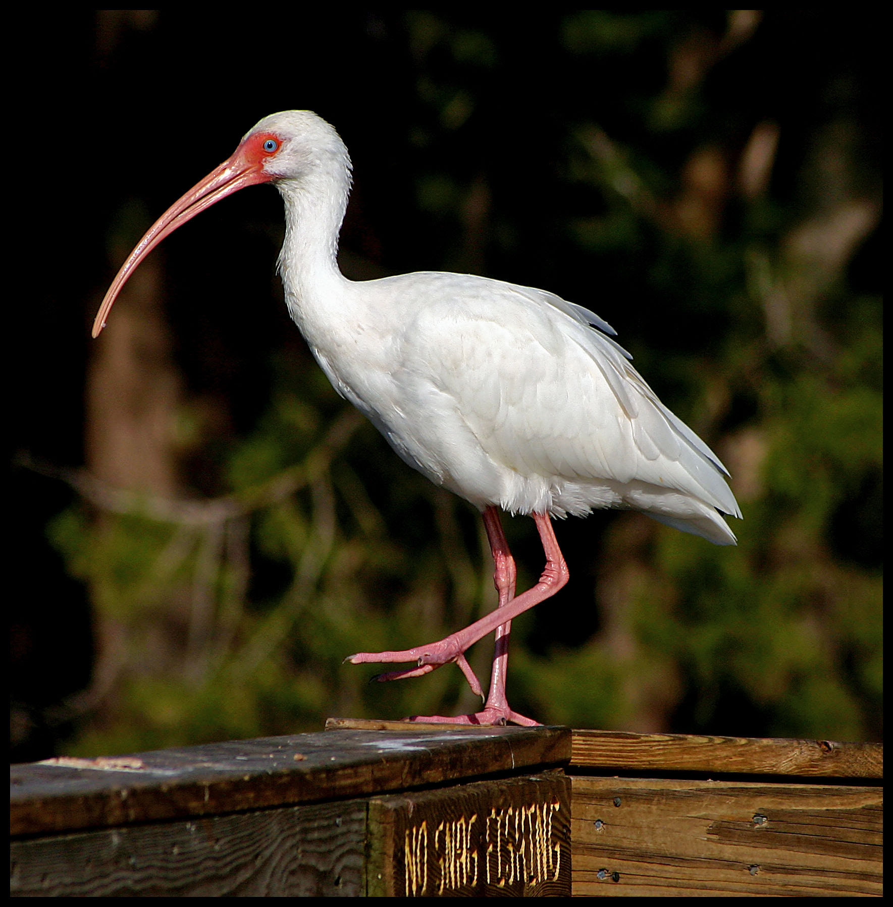 So, it's late at night and I posted 2 Ibis in a row, so what? Gemini Springs Park, DeBary, Florida.